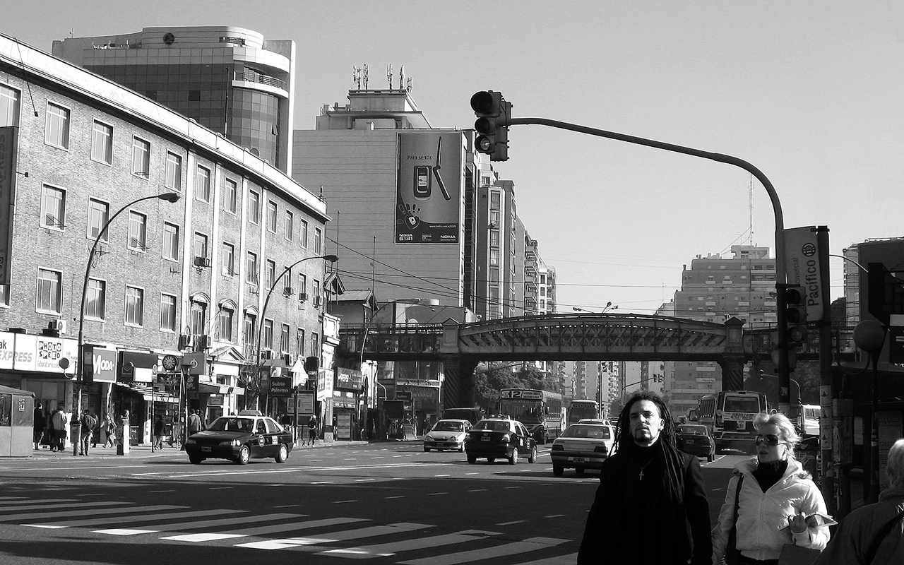 Urban scene on Santa Fe Avenue, with a railway bridge crossing the lanes. Palermo district, in Buenos Aires, Argentina.